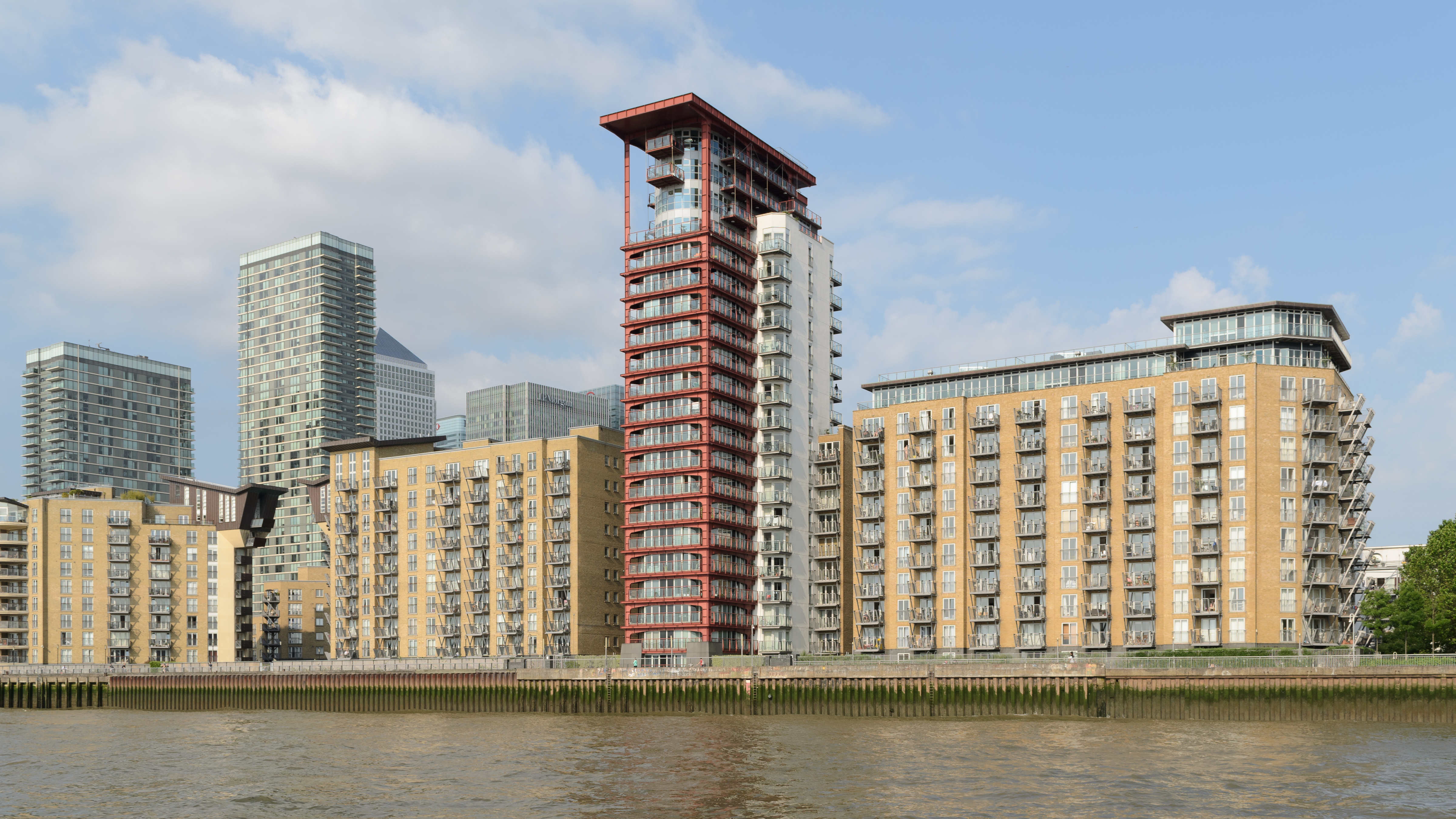 Residential buildings, Millwall, as seen from the Thames, London.